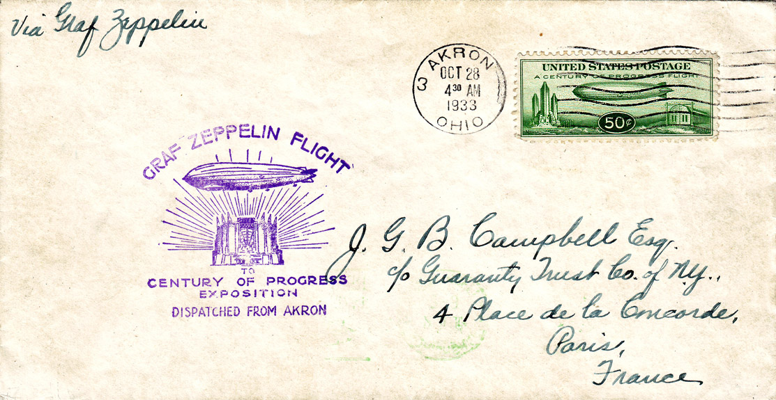 Cover carried from the Century of Progress Exposition on the D-LZ 127 Graf Zeppelin (Akron, OH - Chicago, IL - Freidrichshafen, Germany) October 28 - November 3, 1933